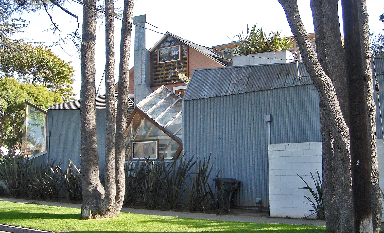 Another angle.